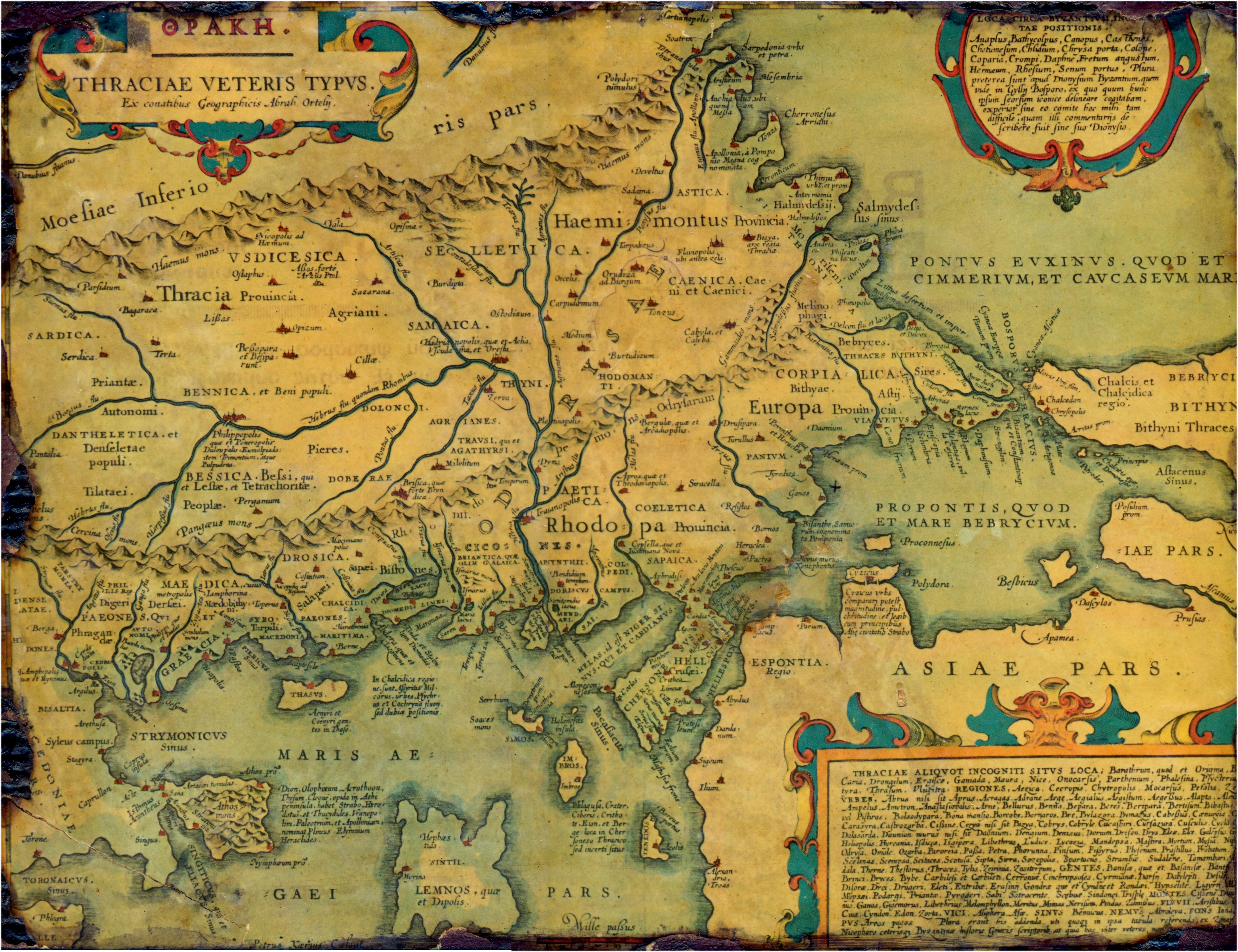 Old, historical map of ancient Thrace, mostly in Latin and very few Greek, made in 1585. The map also shows part of Asia minor, Moesia inferior, & ancient Greece along with some Aegan islands. There is some anachronism on the map, such as Moesia inferior and other features.